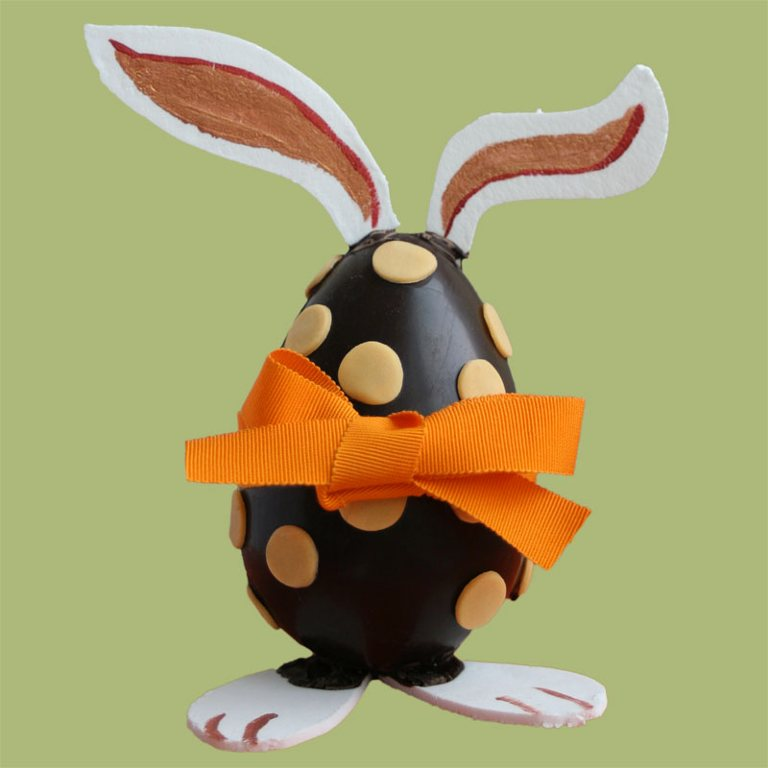 A chocolate egg decorated with bunny like ears and feet. The ears and feet are made of pastillage (sugar dough). This egg/bunny is a twist on the standard Easter chocolate eggs and chocolate bunnies.